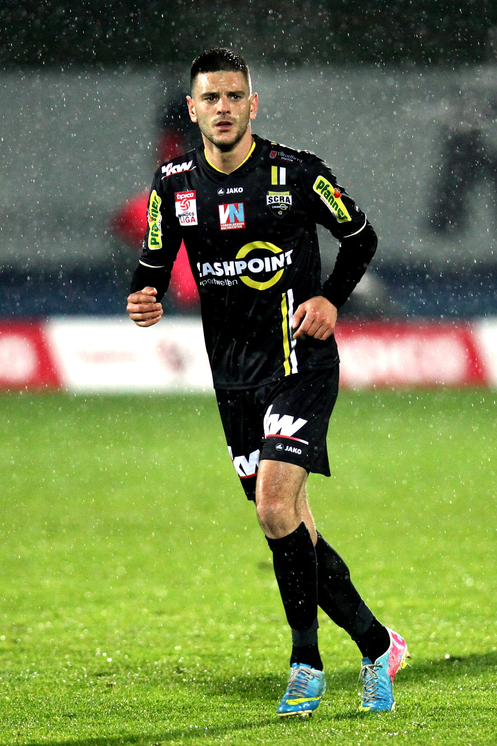 2014–15 Austrian Football Bundesliga: SC Wiener Neustadt vs. SC Rheindorf Altach (2:0 / 0:0) at 2014-12-06 in the Stadion Wiener Neustadt. – The photo shows en: (SC Wiener Neustadt/SC Rheindorf Altach). The making of this work was supported by Wikimedia Austria. For other files made with the support of Wikimedia Austria, please see the category Supported by Wikimedia Österreich.